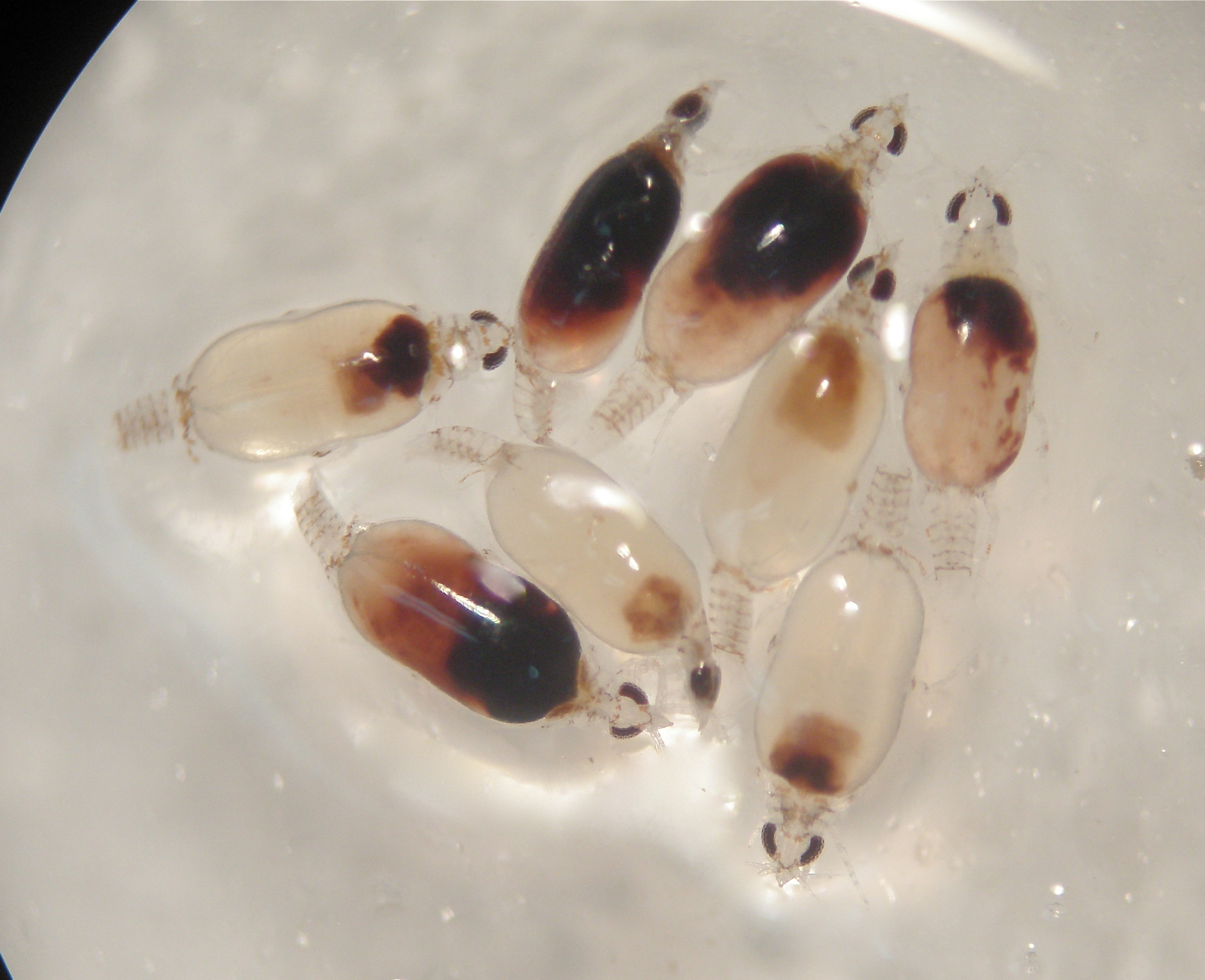 Gnathia marleyi - juveniles